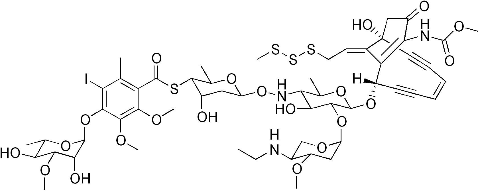 chemical structure of calicheamicin gamma 1